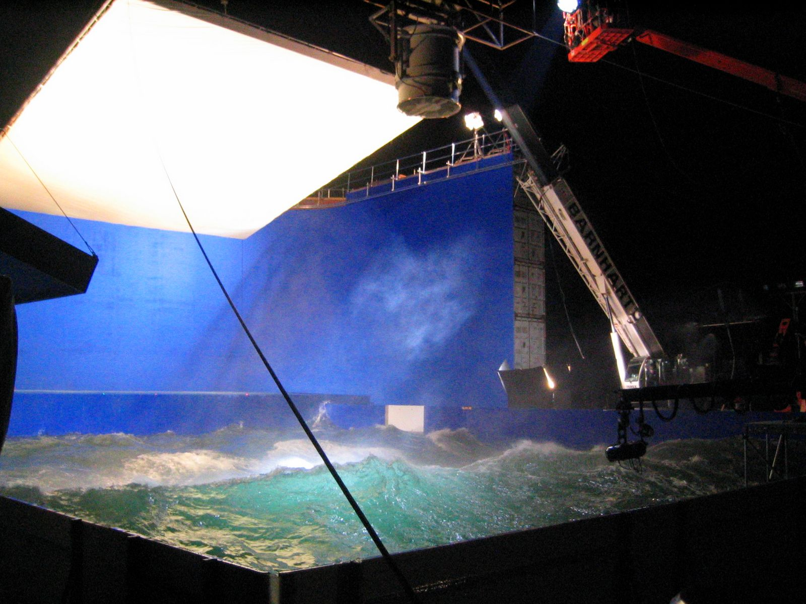 An indoor wave pool used for filming The Guardian